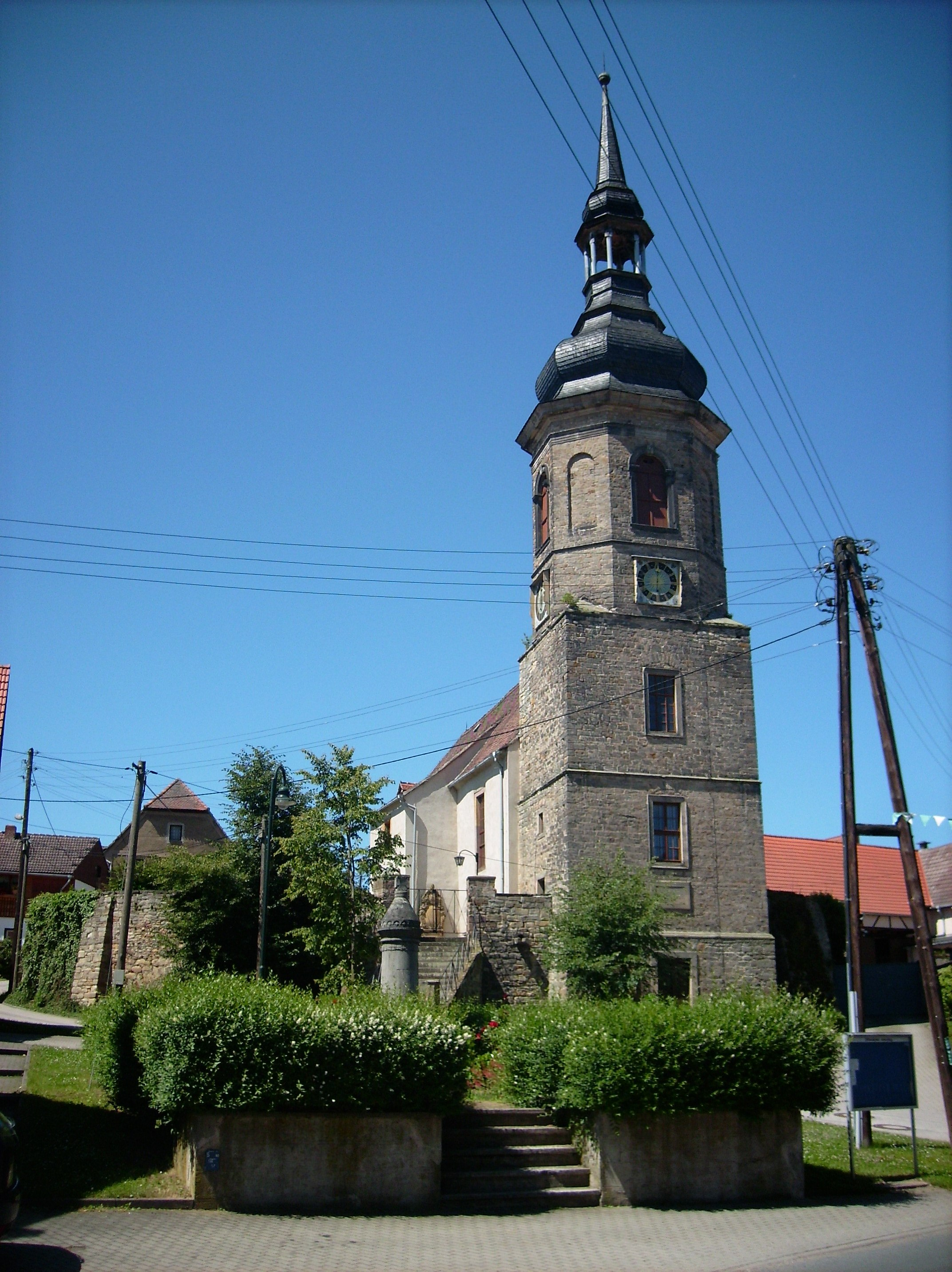 Bucha church (Kaiserpfalz, district of Burgenlandkreis, Saxony-Anhalt)